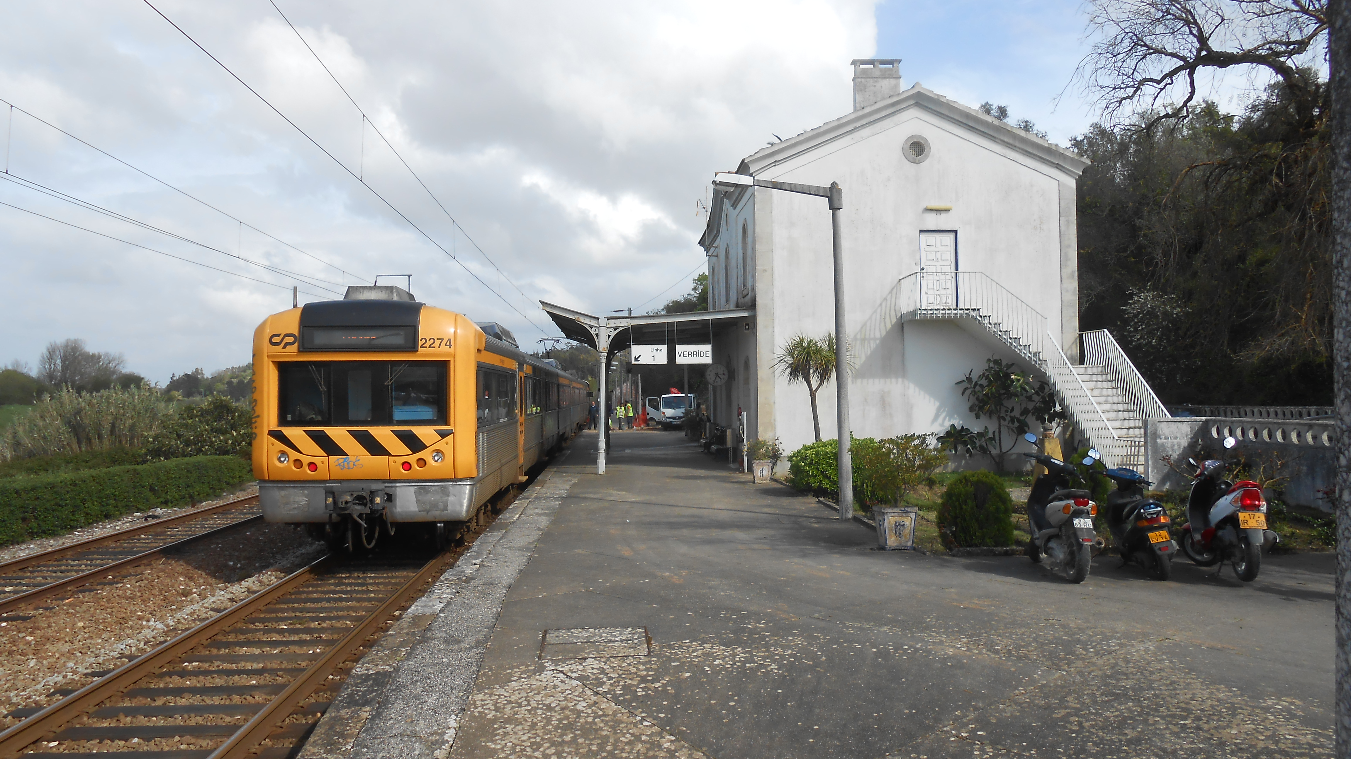 The Verride train station at the Ramal de Alfarelos line, in the municipality of Montemor-o-Velho, district of Coimbra, Portugal